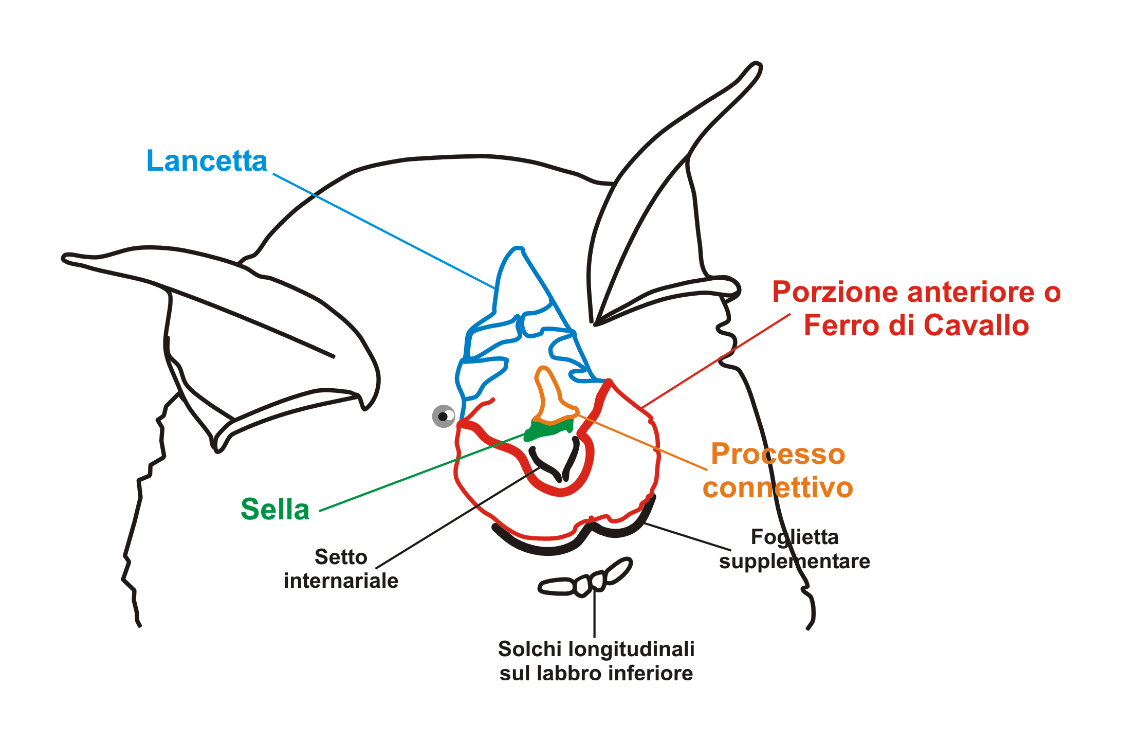 Nose Leaf structure useful to identify Rhinolophus species